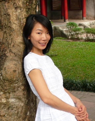 Portrait